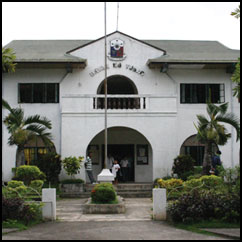 Tubao municipal building built after the 1990 earthquake that destroyed the Moncada model.